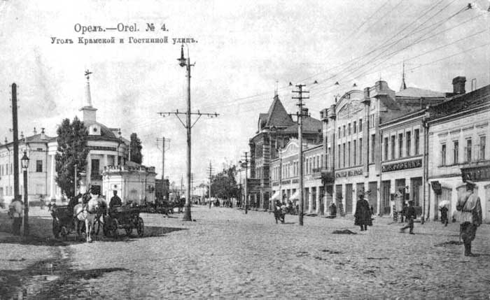 Postcard of the Russian town Oryol around 1900.